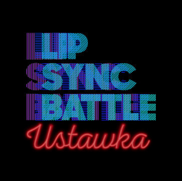 Lip Sync Battle Ustawka - logo